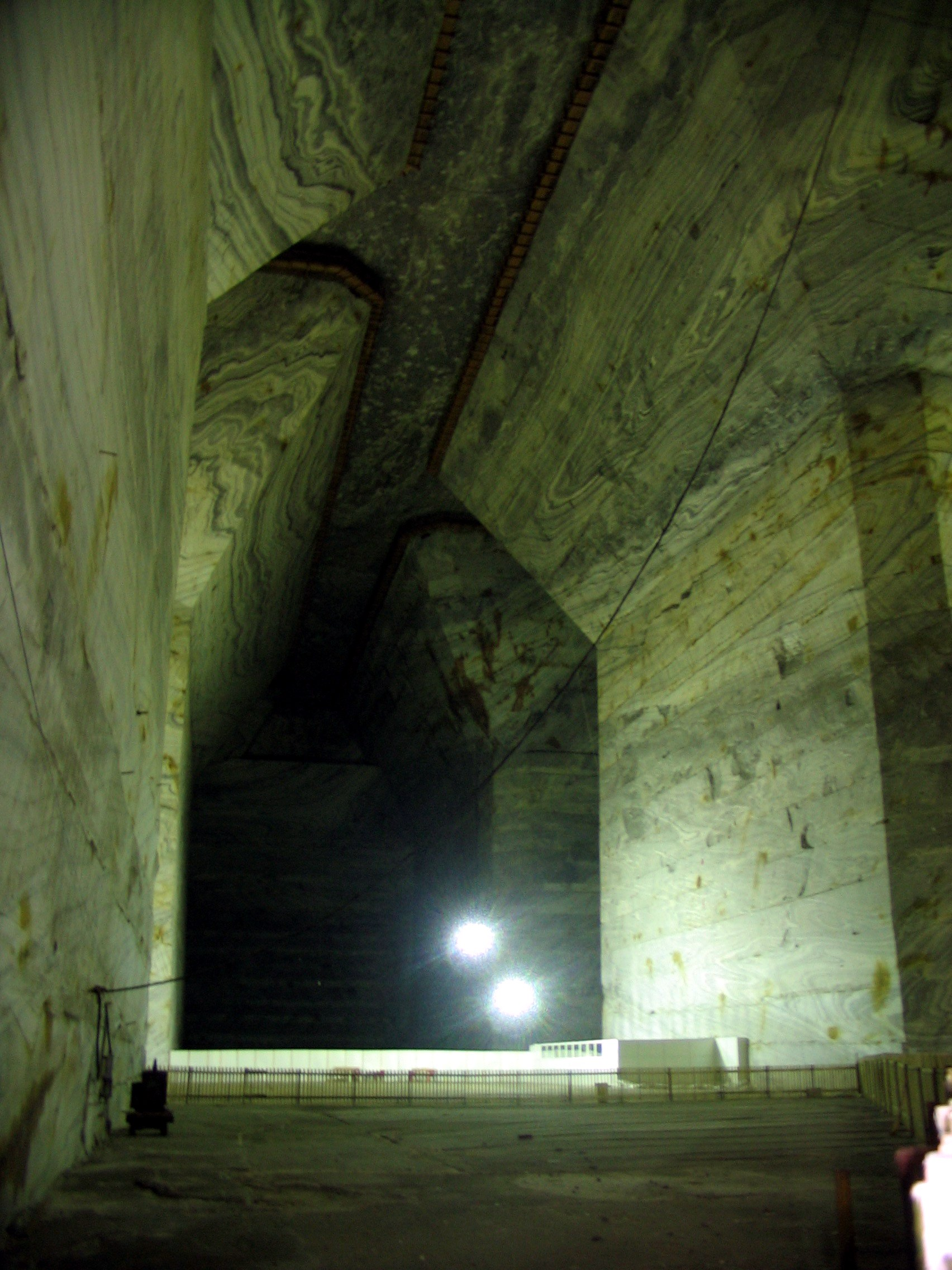 Inside the Unirea salt mine from Slănic, Prahova, Romania